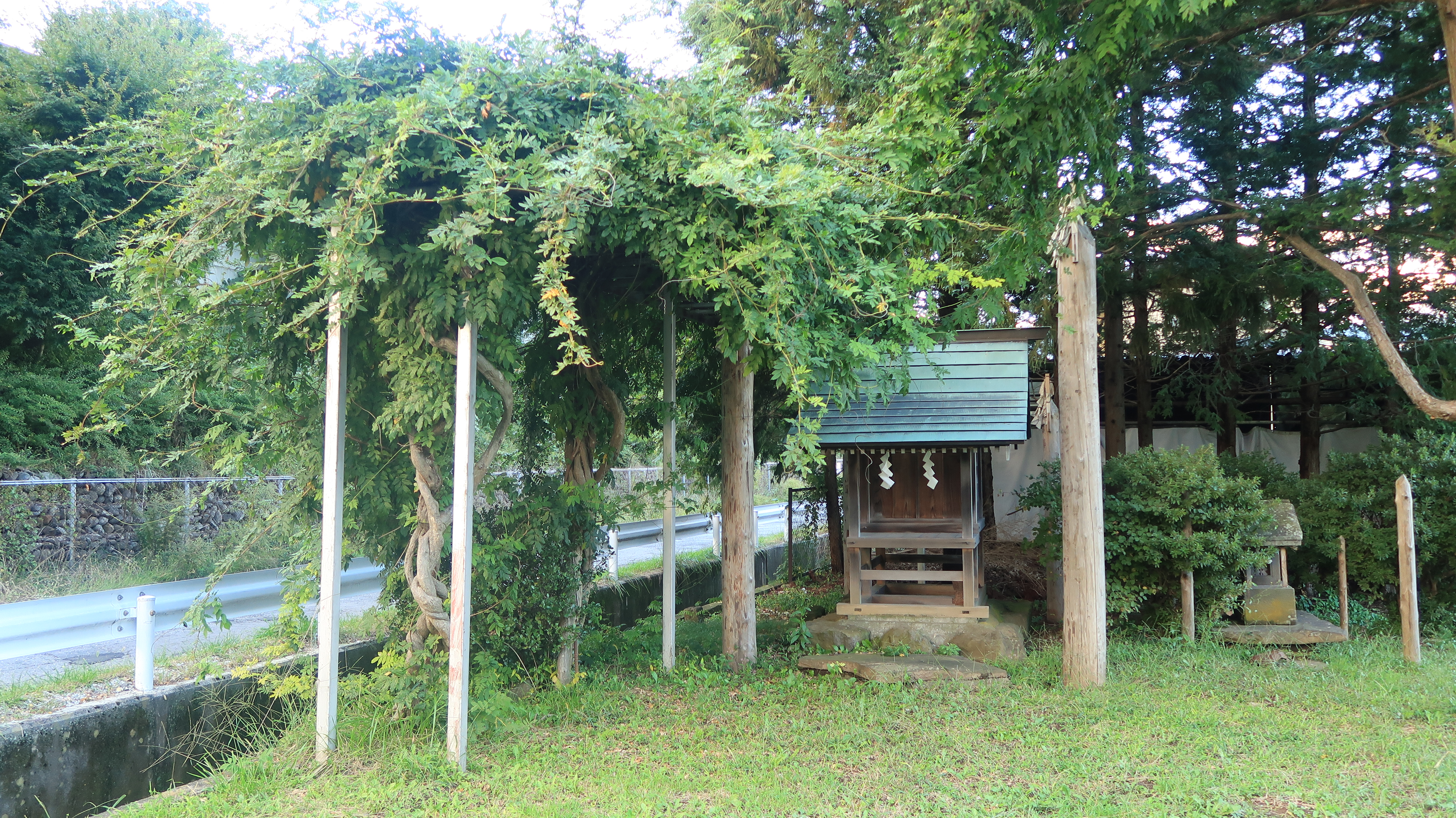 Fujishima Shrine (Suwa, Nagano)